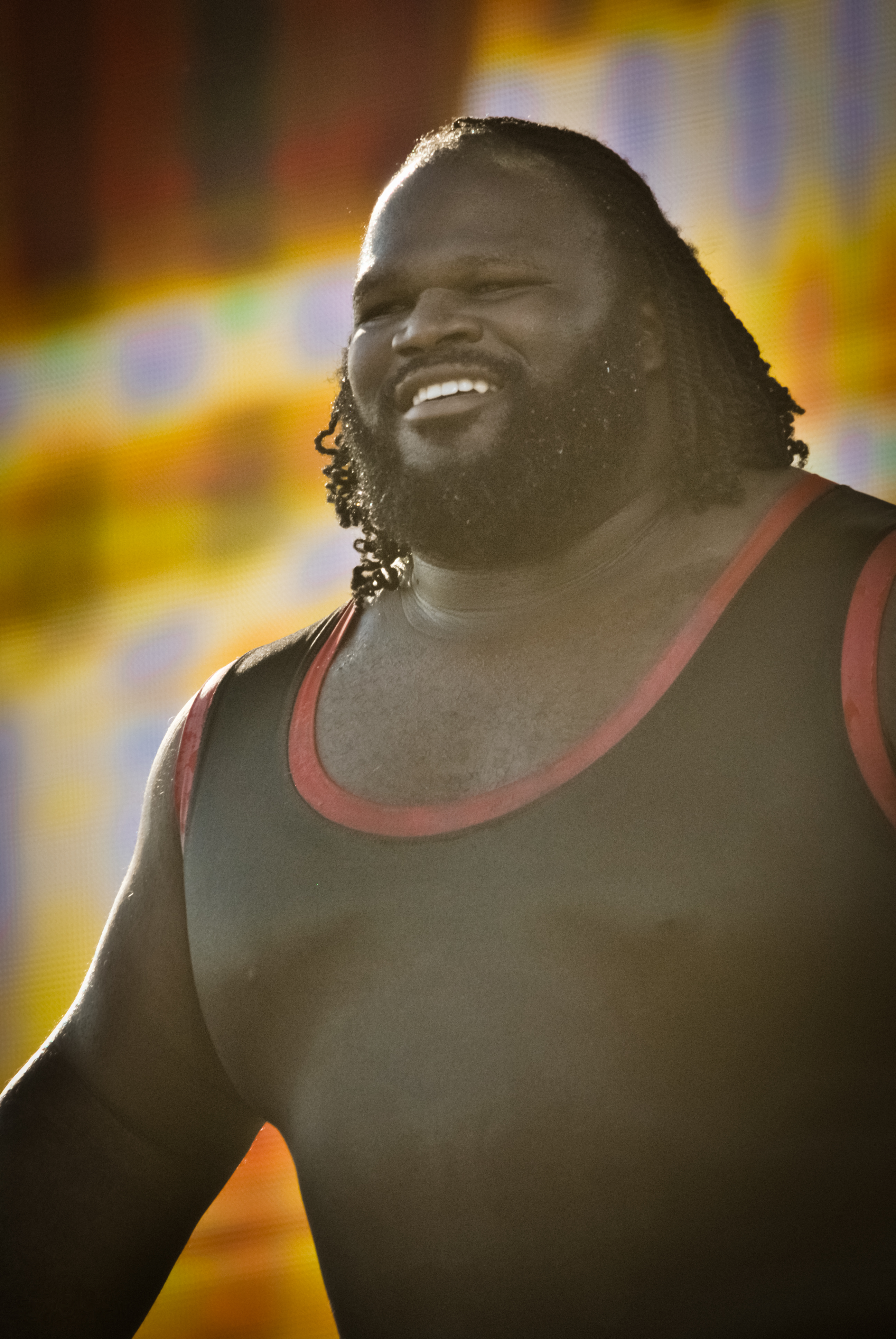 Mark Henry at WWE's Tribute to the Troops event on December 11, 2010 in Fort Hood, Texas.